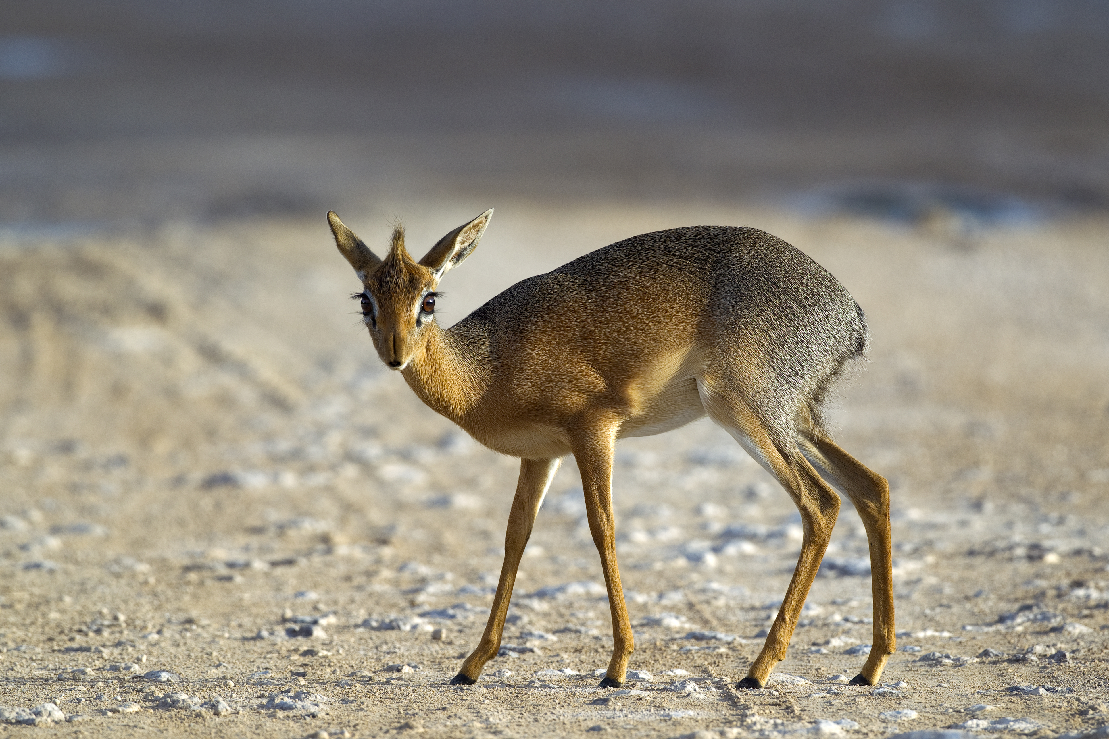 Damara dik dik (female) in Etosha National Park, Namibia